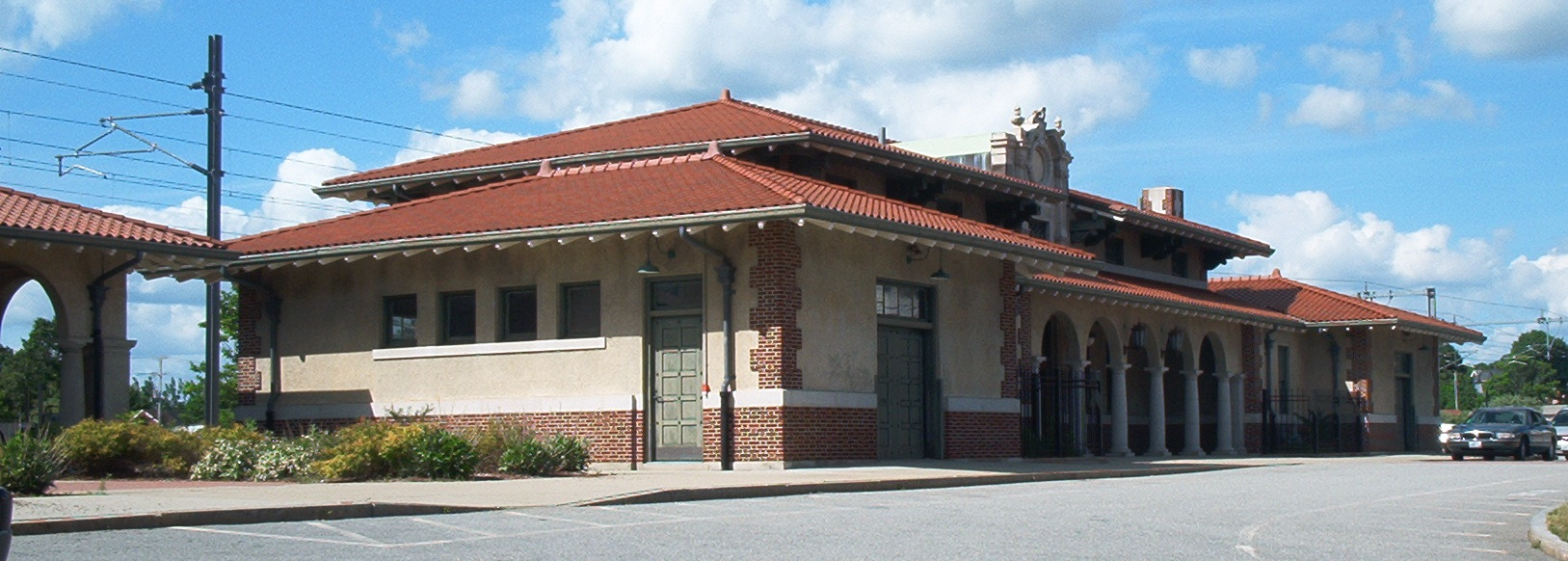 Amtrak station in Westerly, Rhode Island